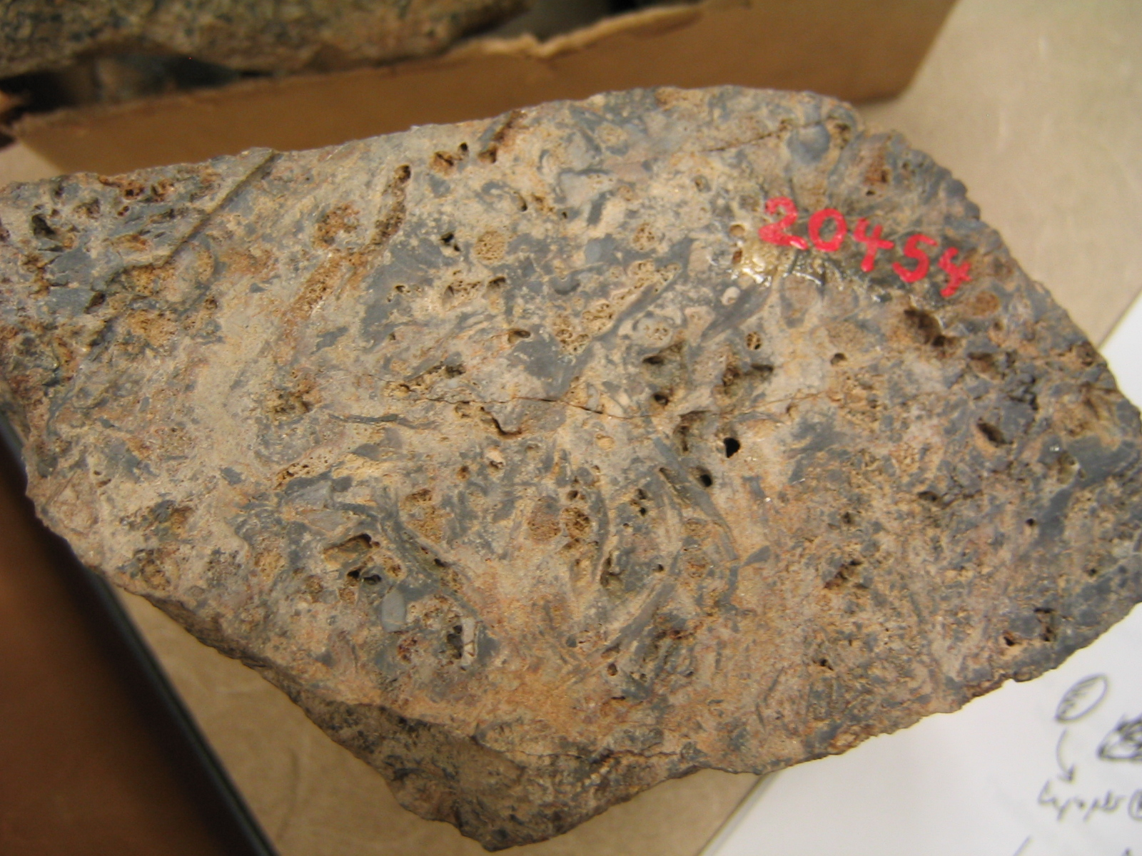 Author: user Jpwilson Photo of an unpolished hand sample of the Rhynie Chert from Rhynie, Scotland. Taken by the author on February 28, 2005. Sample number 20454 from the Harvard University Paleobotany Collection.